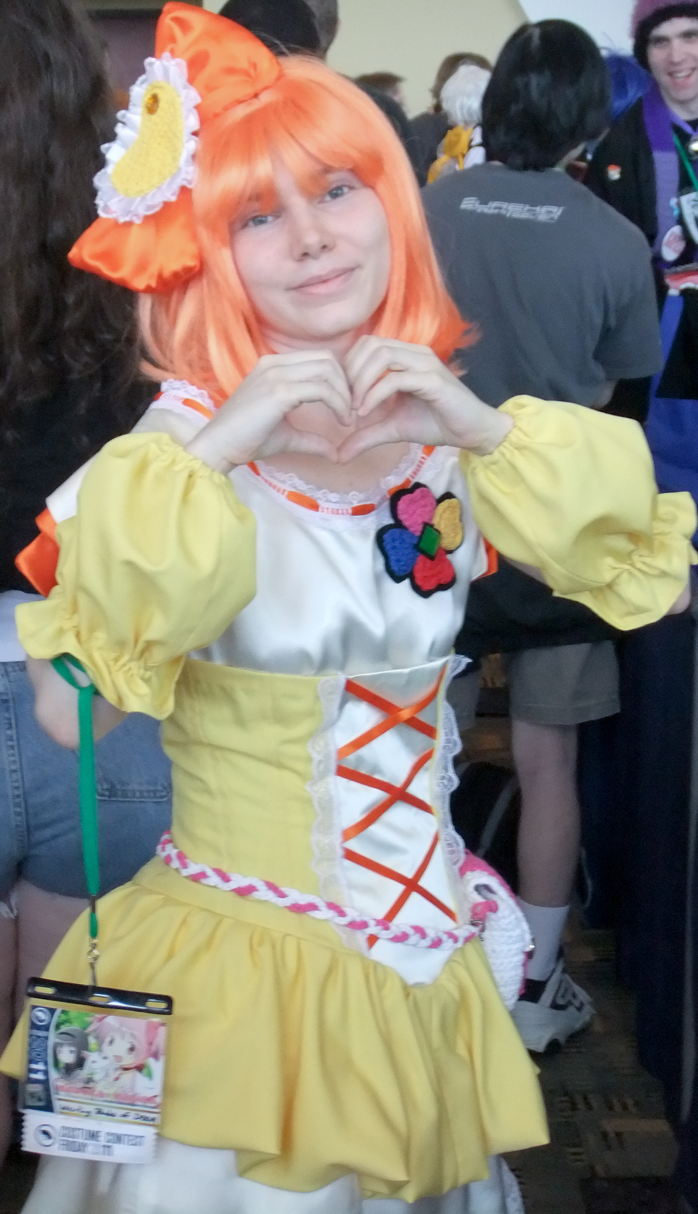 Cosplayer of Cure Pine from Fresh Precure!, at Otakon 2011.DSCF0144